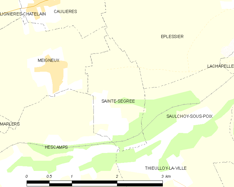 Map of French municipality Sainte-Segrée